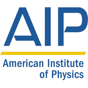 Logo of the American Institute of Physics (AIP), as depicted in the icon for an iPhone app "iResearch".